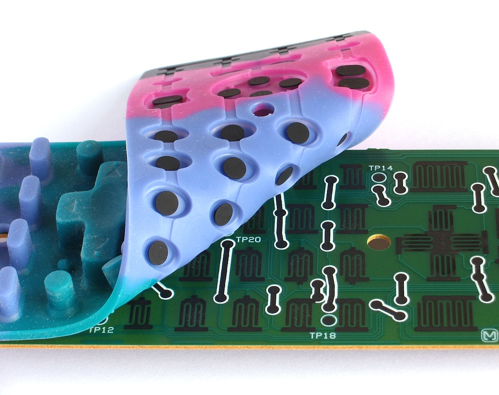 Inside the keypad of a Sharp VCR remote control.